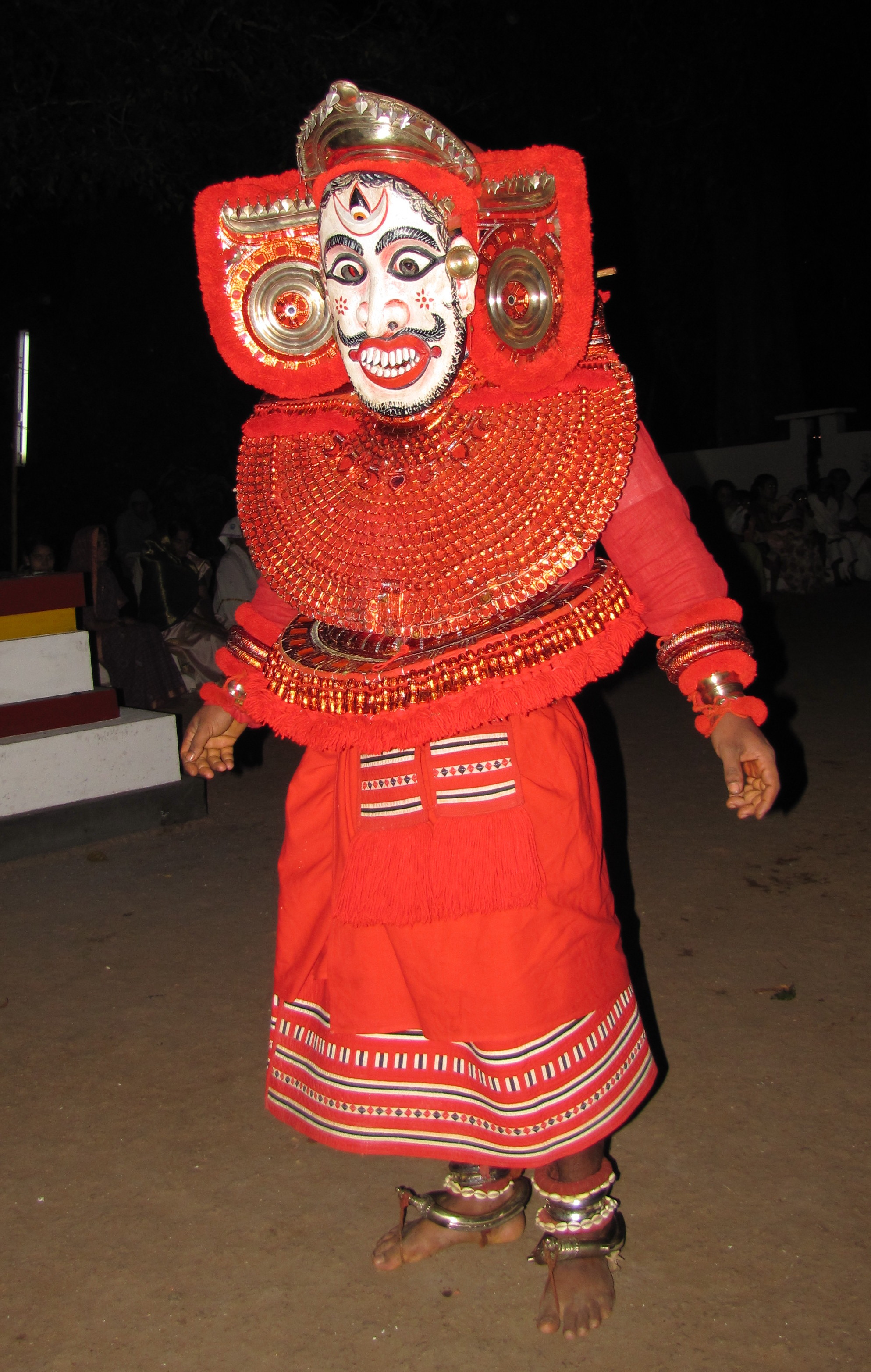 Bhoothatthar from Sree Kurinchirakkal Bhagavathi Temple, Padappengad in Kannur